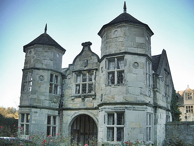 Madeley Court - .uk - 173588